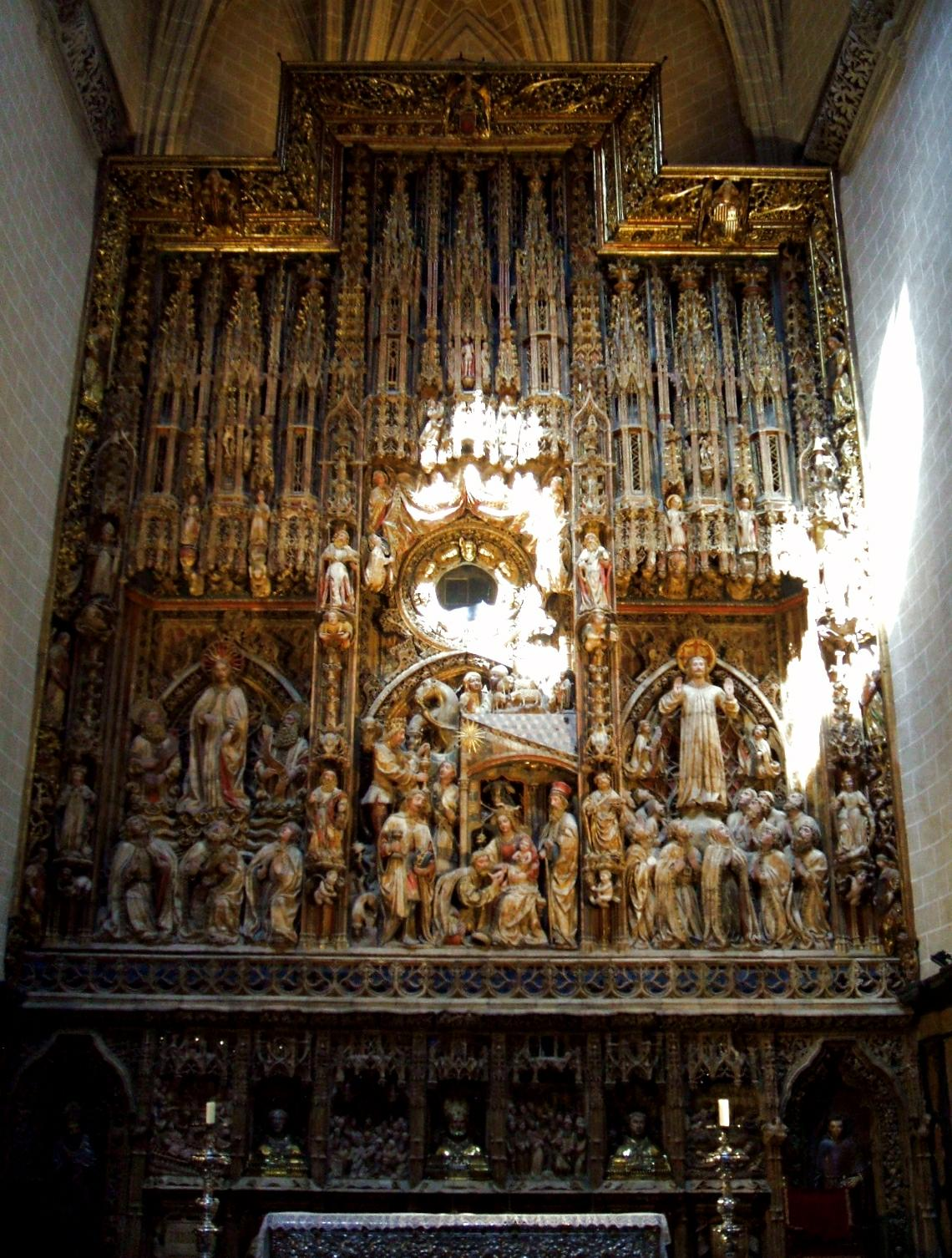 Retablo mayor tardogótico (s-XV) de la Catedral (La Seo) de Zaragoza (Aragón, España)